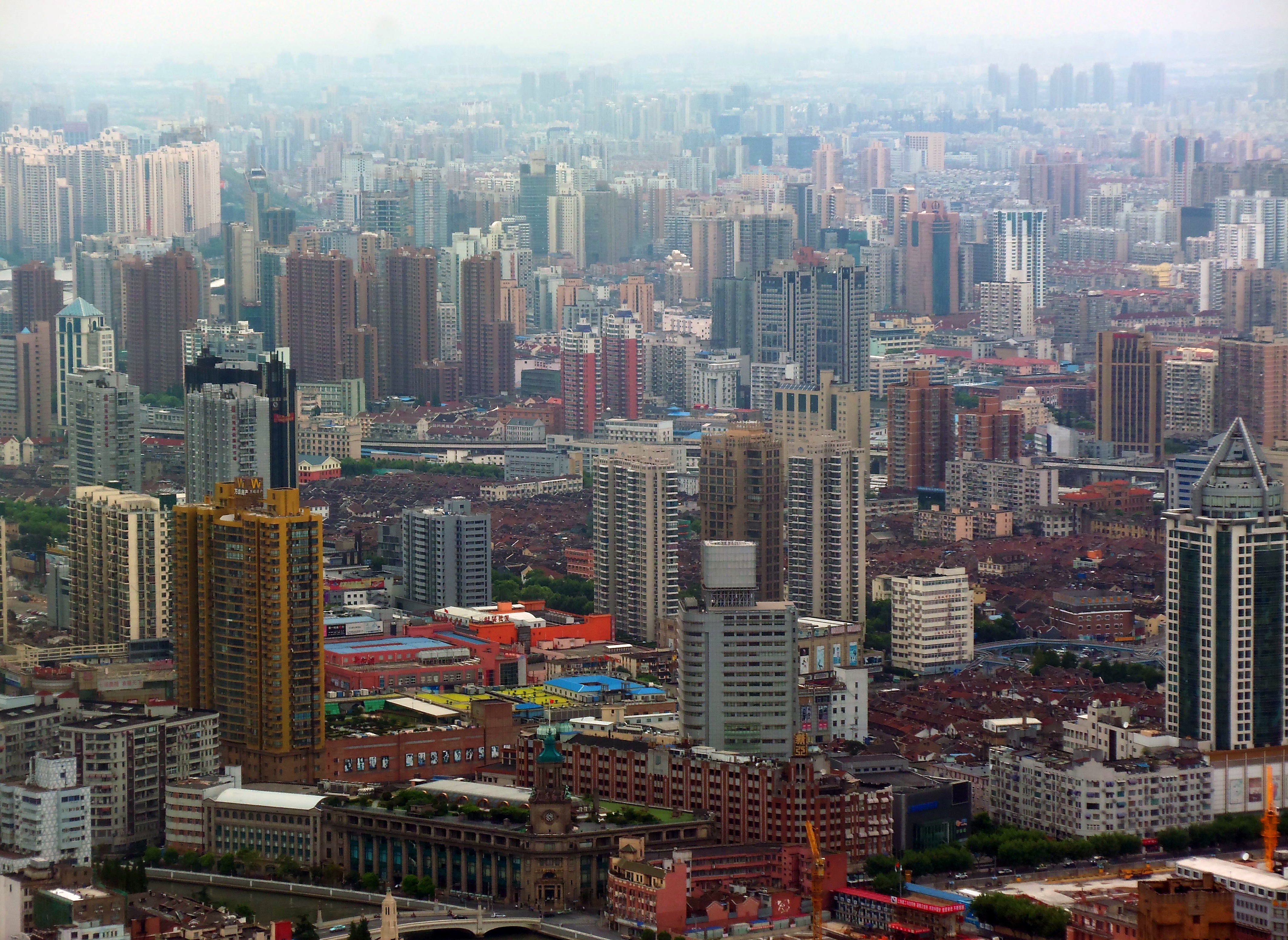 View of Hongkou District and Zhabei District of Shanghai from Oriental Pearl Tower observation deck.